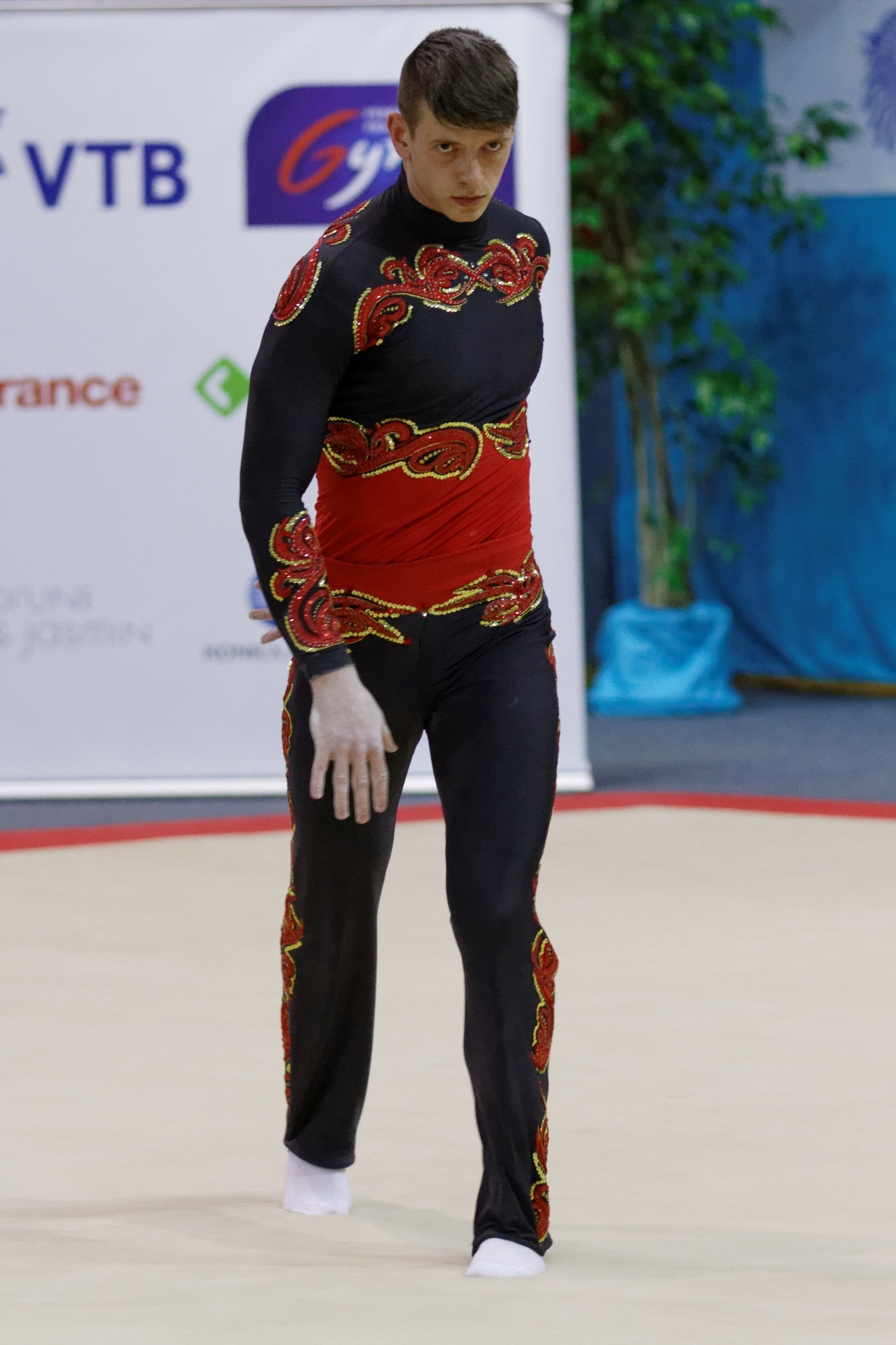 2014 Acrobatic Gymnastics World Championships, 10th-12 July, Levallois-Perret, France. Finals: men's pair. Belarus.